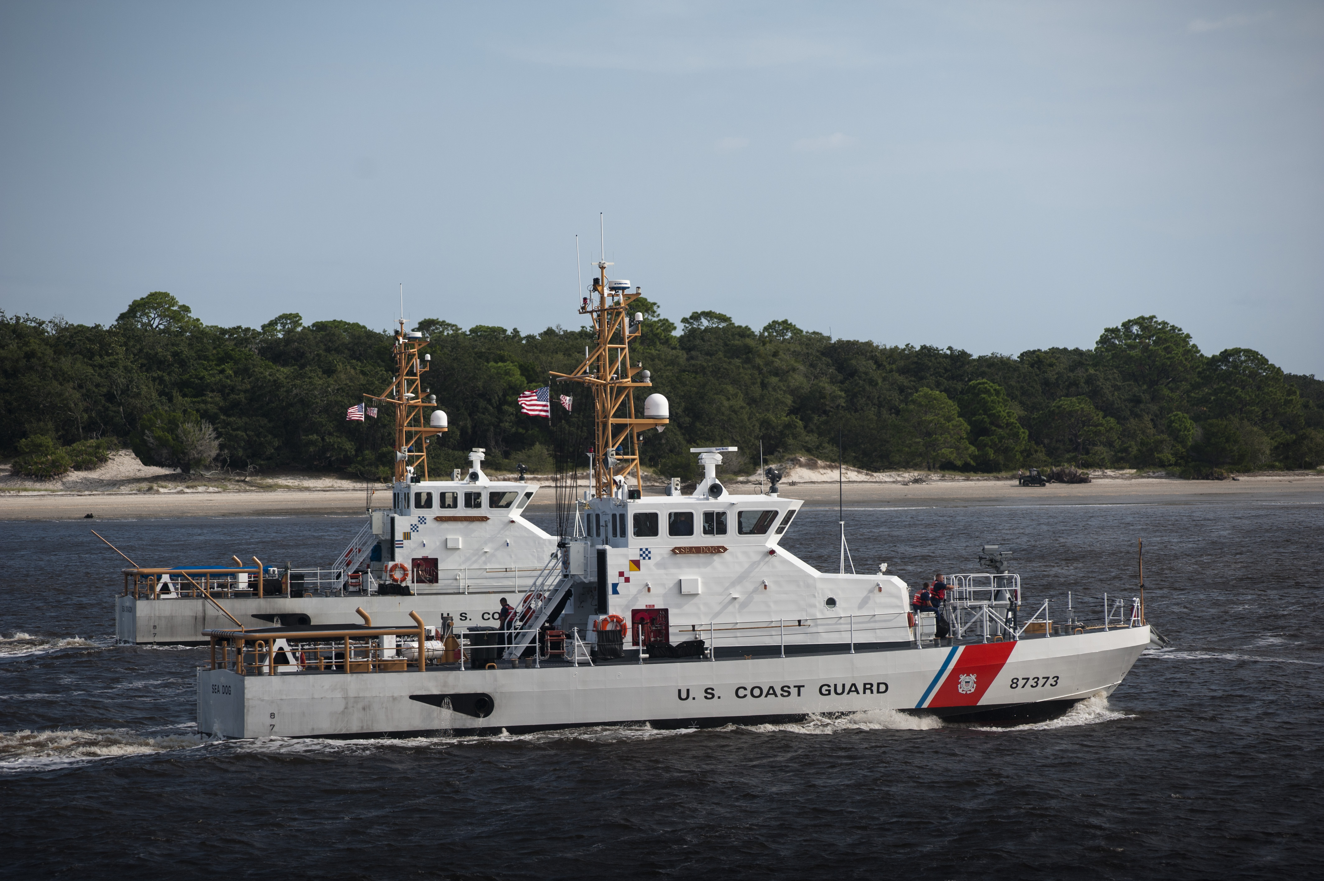 USCG Marine Protector Cutters USCGC Sea Dog and USCGC Sea Dragon keep the USN's big subs safe at Kings Bay, Georgia. Original caption: "USCGC Sea Dog (front) and USCGC Sea Dragon of Maritime Force Protection Unit Kings Bay support exercise Resolute Guardian 2012 Sept. 25 near Naval Submarine Base Kings Bay. Maritime Force Protection Unit Kings Bay is designed to support the Navy's efforts to provide anti-terrorism and force protection for its Ohio-class ballistic missile submarines and to assist in meeting its Presidential mandates for ballistic weapon security. (U.S. Navy photo by Mass Communication Specialist 1st Class(SW) James Kimber)"